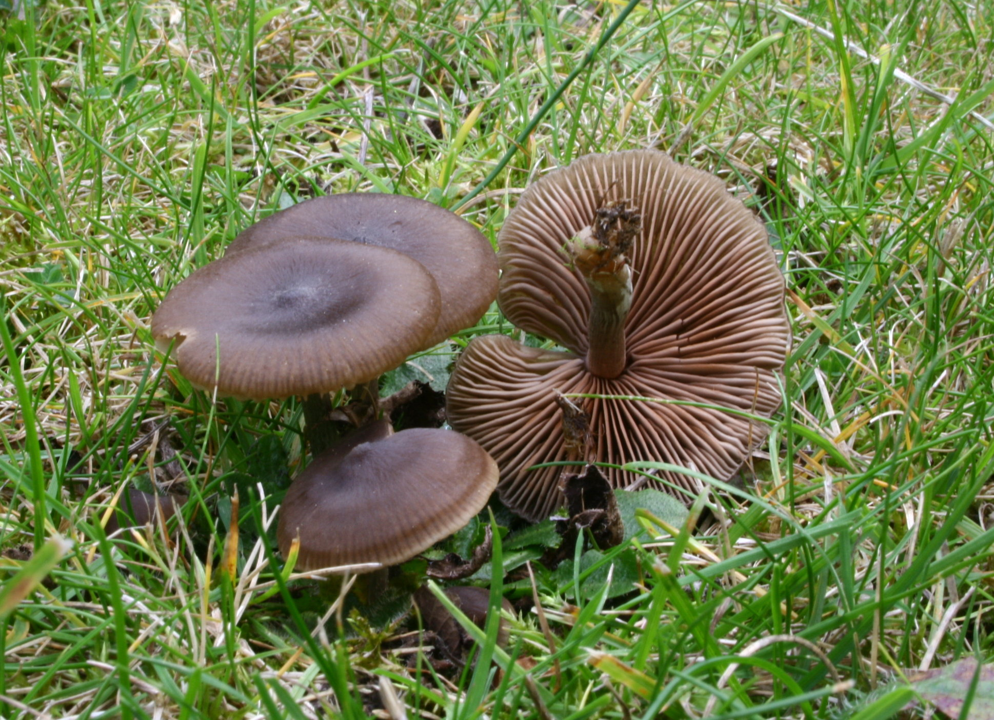 Entoloma sericeum in a garden near Massy, France.